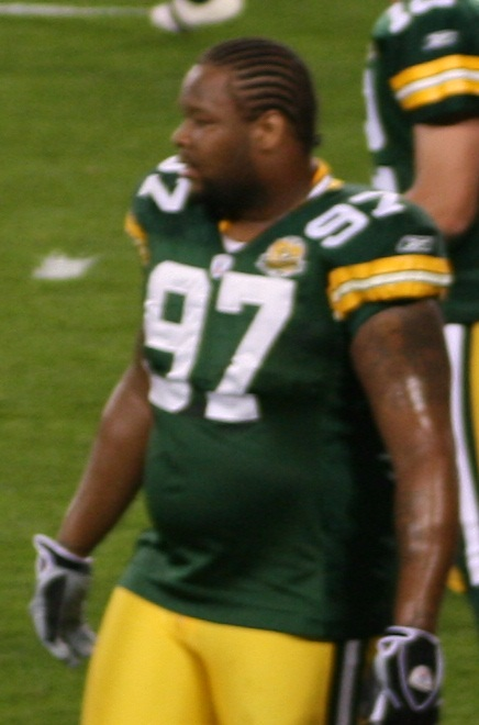 Brett Favre warms up before a game against the Chicago Bears.